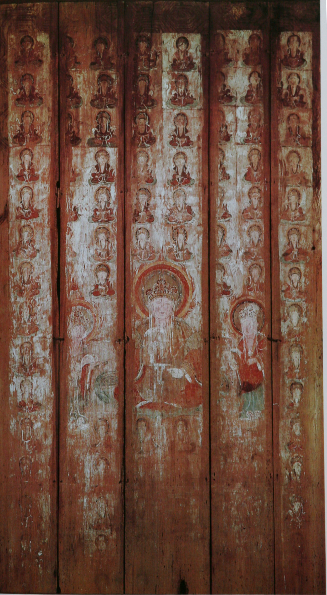 Taishakuten mandala Color on wood wall, height 351cm, wide 192cm, Heian period, 9th century, Murō-ji, Uda, Nara, Japan